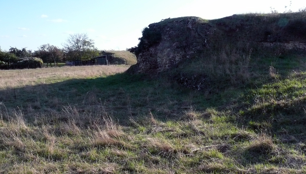 Roman theatre of Gisacum